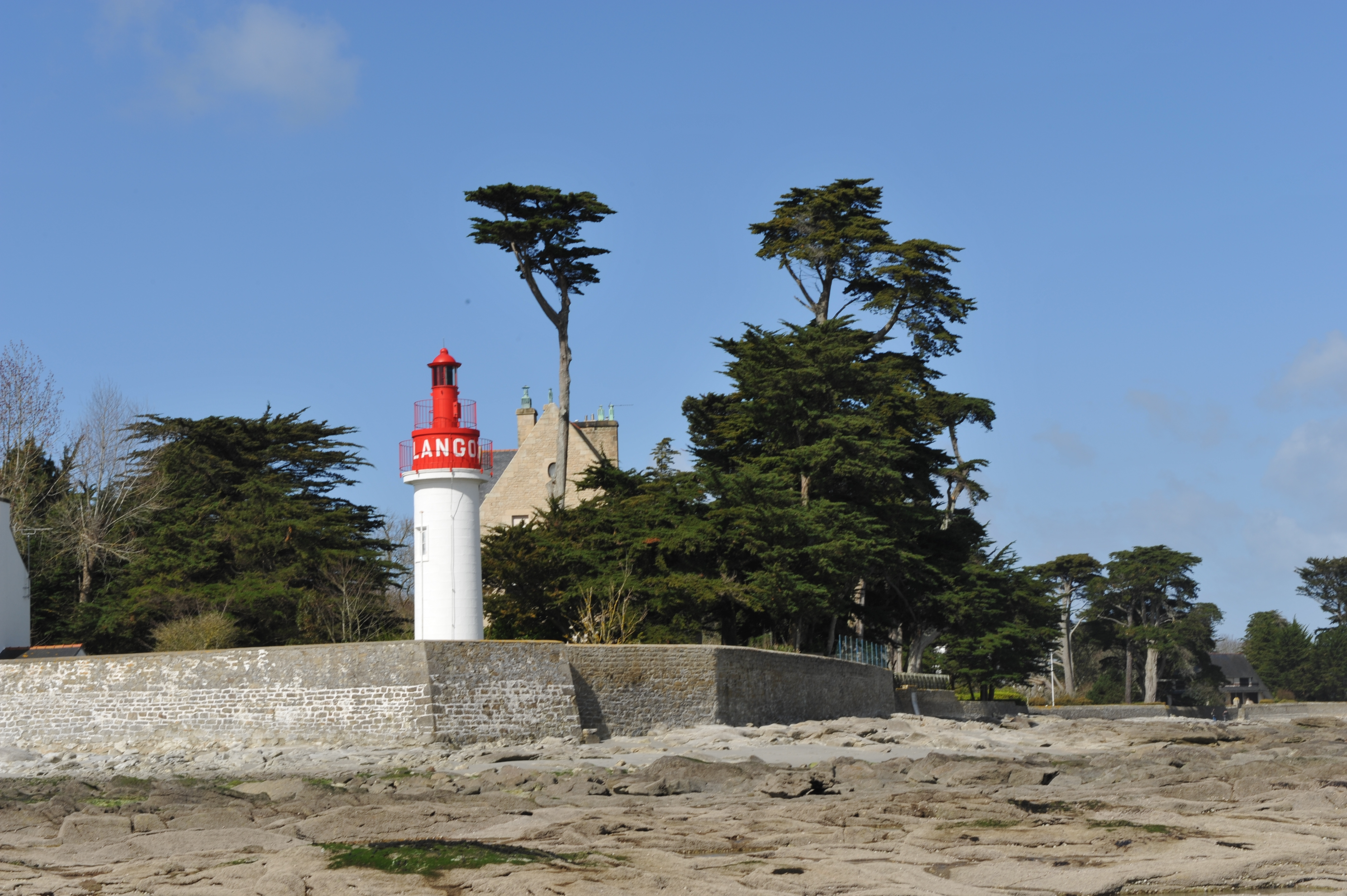 Lighthouse Langoz Loctudy Finistère France